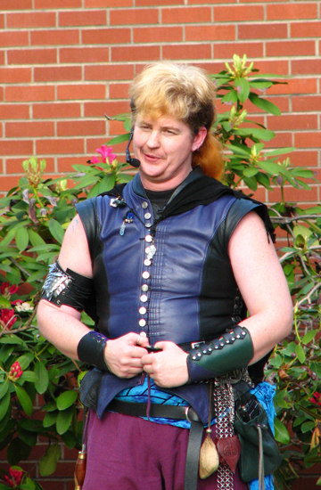 Alexander James Adams, taken at Faire in the Grove in Forest Grove Oregon, April 28th, 2007.